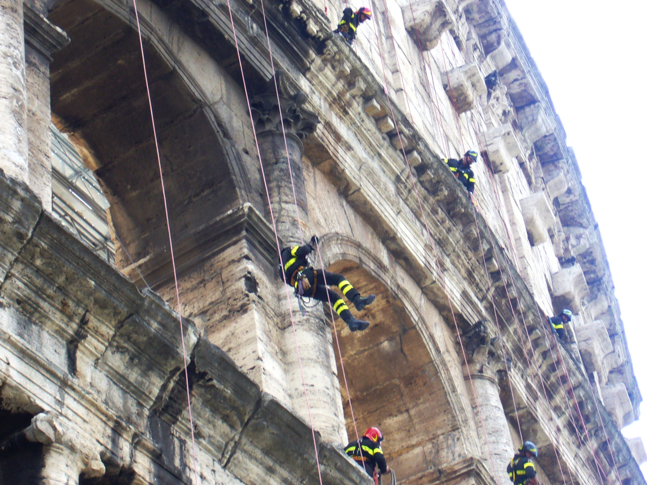 Firefighters of the Speleo-Mountain-Swiftwater rescue (SAF) coming down at the Colosseo, where they had just removed the big Tricolore (Italian flag) installed for the Republic Day